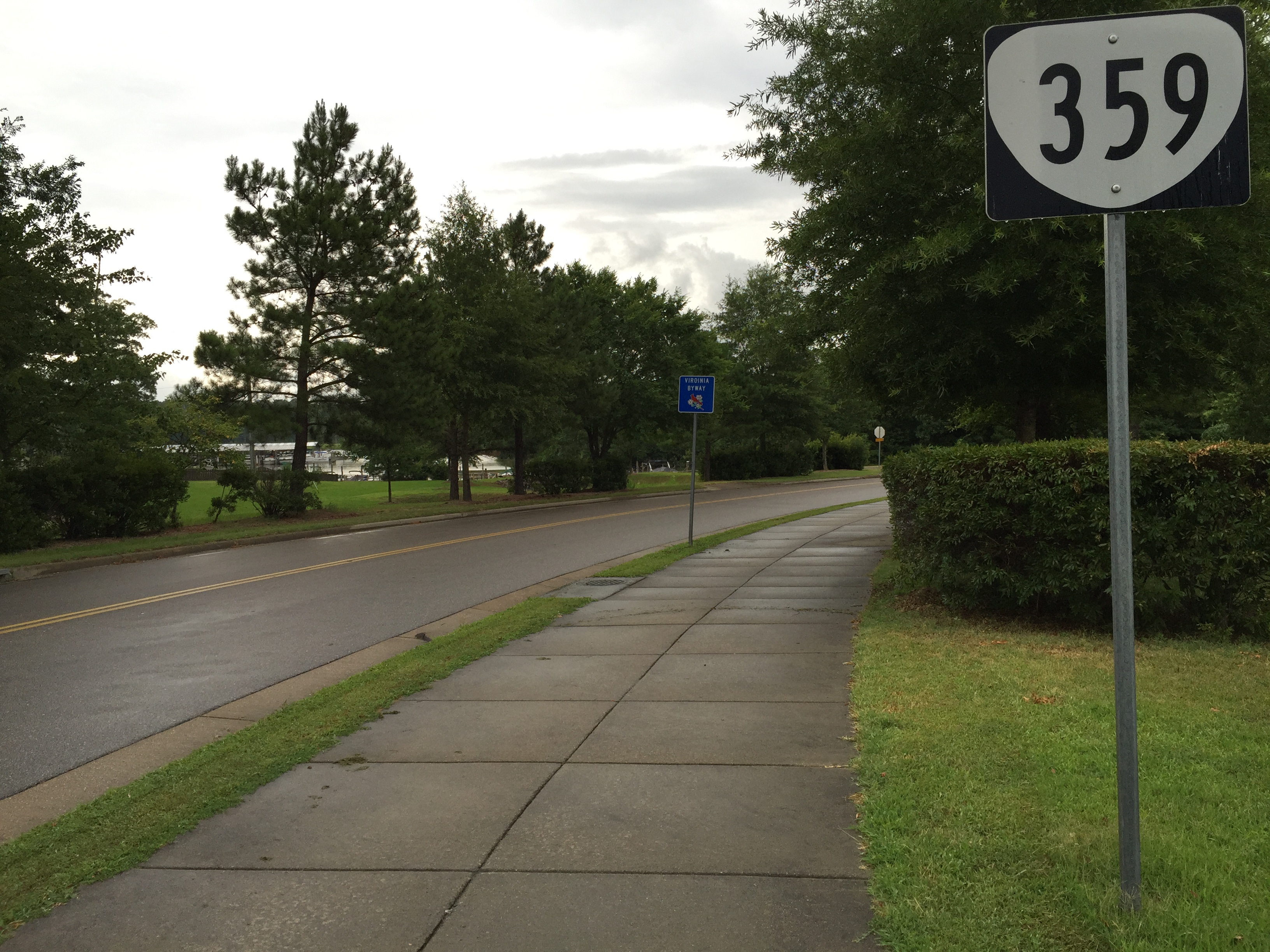 View south along Virginia State Route 359 (Jamestown Festival Parkway) at Virginia State Route 31 (Jamestown Road) in James City County, Virginia